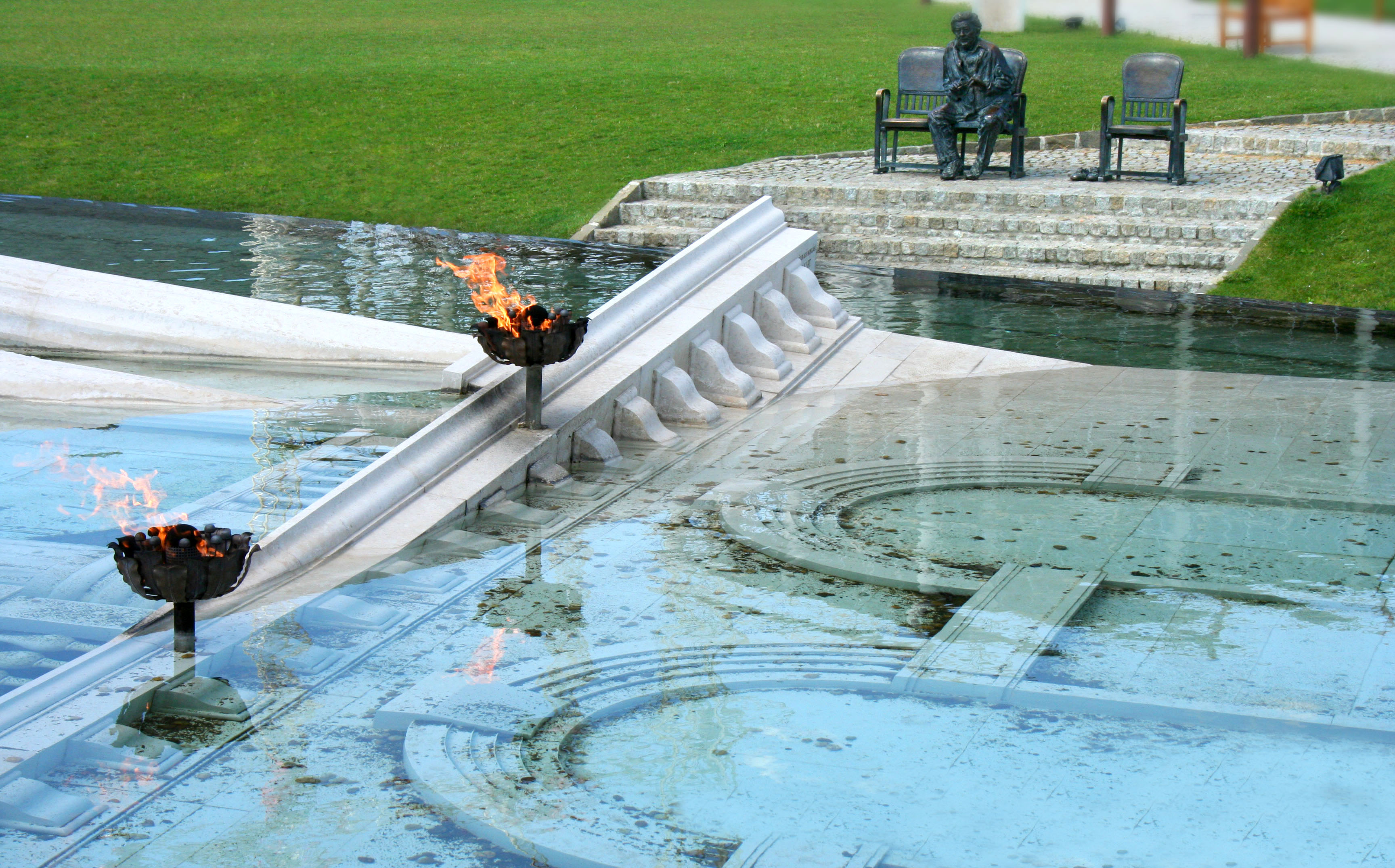 Hungarian National Theater Budapest - Theater Memorial Park, The bronze sculpture= Hilda Gobbi Hungarian actress